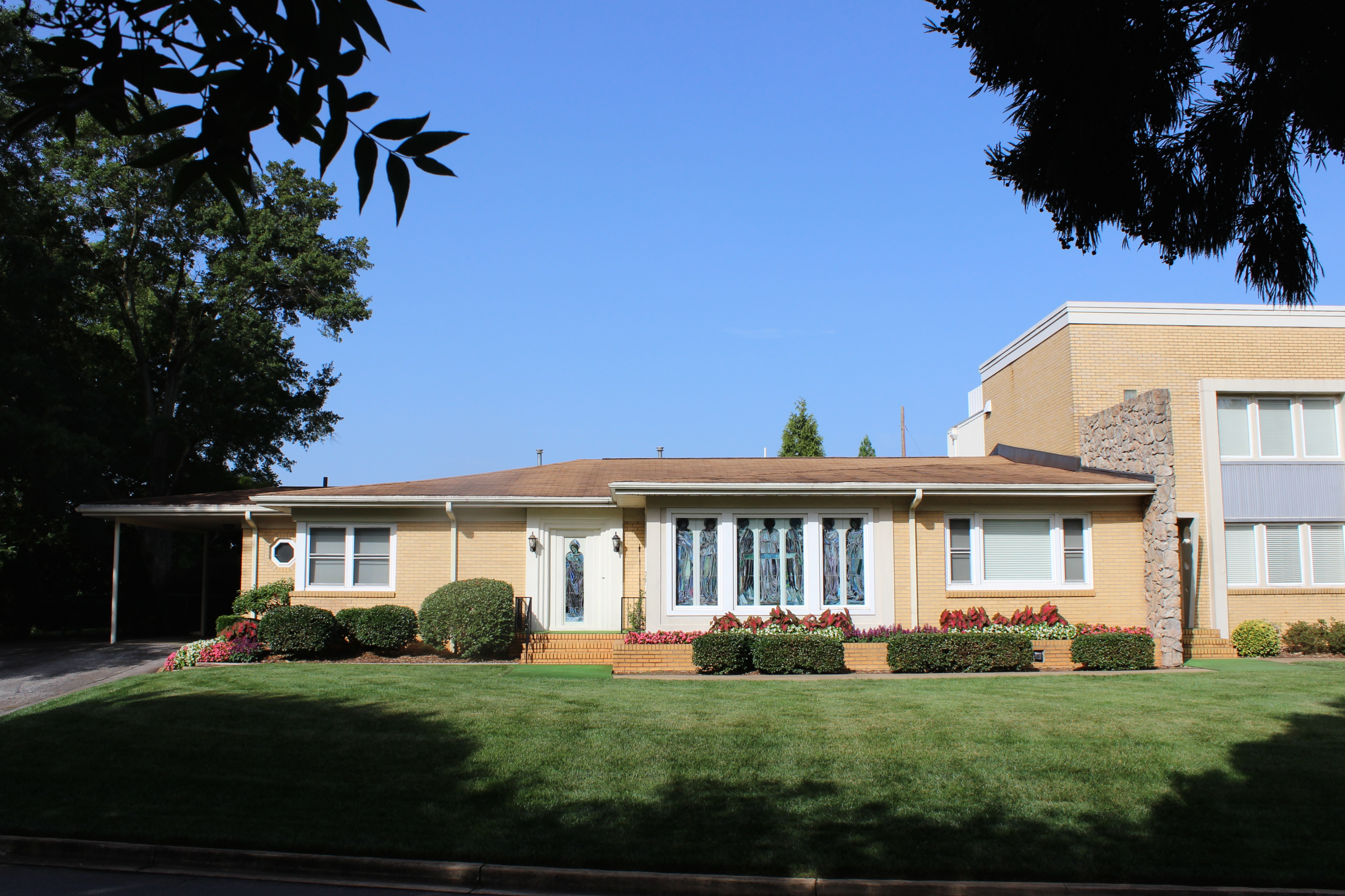 From 1948 to his final illness, the home of Bob Jones, Sr. (1883-1968) on the campus of Bob Jones University, Greenville, South Carolina, USA. The house was joined to the larger official residence of the BJU president (at the time, Bob Jones Jr.) to the right of the photo.